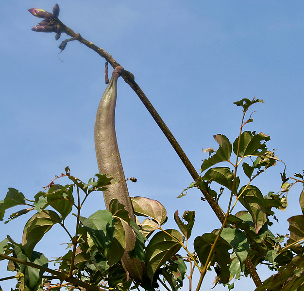 Oroxylum indicum (Syn. Bignonia indica, Calosanthes indica)- Broken bones tree, Tree of Damocles, Indian Trumpet Flower, Sonpatha, Midnight horror • Hindi: भूत वृक्ष bhut-vriksha, दीर्घवृन्त dirghavrinta, कुटन्नट kutannat, मण्डूक manduk (the flower), पत्रोर्ण patrorna, पूतिवृक्ष putivriksha, शल्लक shallaka, शूरण shuran, सोन or शोण son, वटुक vatuk • Manipuri: শম্বা Shamba • Marathi: टायिटू tayitu, टेटु tetu • Tamil: சொரிகொன்றை cori-konnai, பாலையுடைச்சி palai-y-utaicci, பூதபுஷ்பம் puta-puspam (the flower) • Malayalam: പലകപയ്യാനി palaqapayyani, വാശ്പ്പാതിരി vashrppathiri, വെള്ളപ്പാതിരി vellappathiri • Telugu: మండూకపర్ణము manduka-parnamu, పంపెన pampena, శూకనాసము suka-nasamu, తుందిలము tundilamu • Kannada: ತಟ್ಟುನ tattuna • Konkani: davamadak • Bengali: সোনা sona • Oriya: टटेलों tatelo • Assamese: তোগুনা Toguna • Sanskrit: अरलु aralu, श्योनक shyonaka - in Herbal Garden, in Rangareddy district of Andhra Pradesh, India.